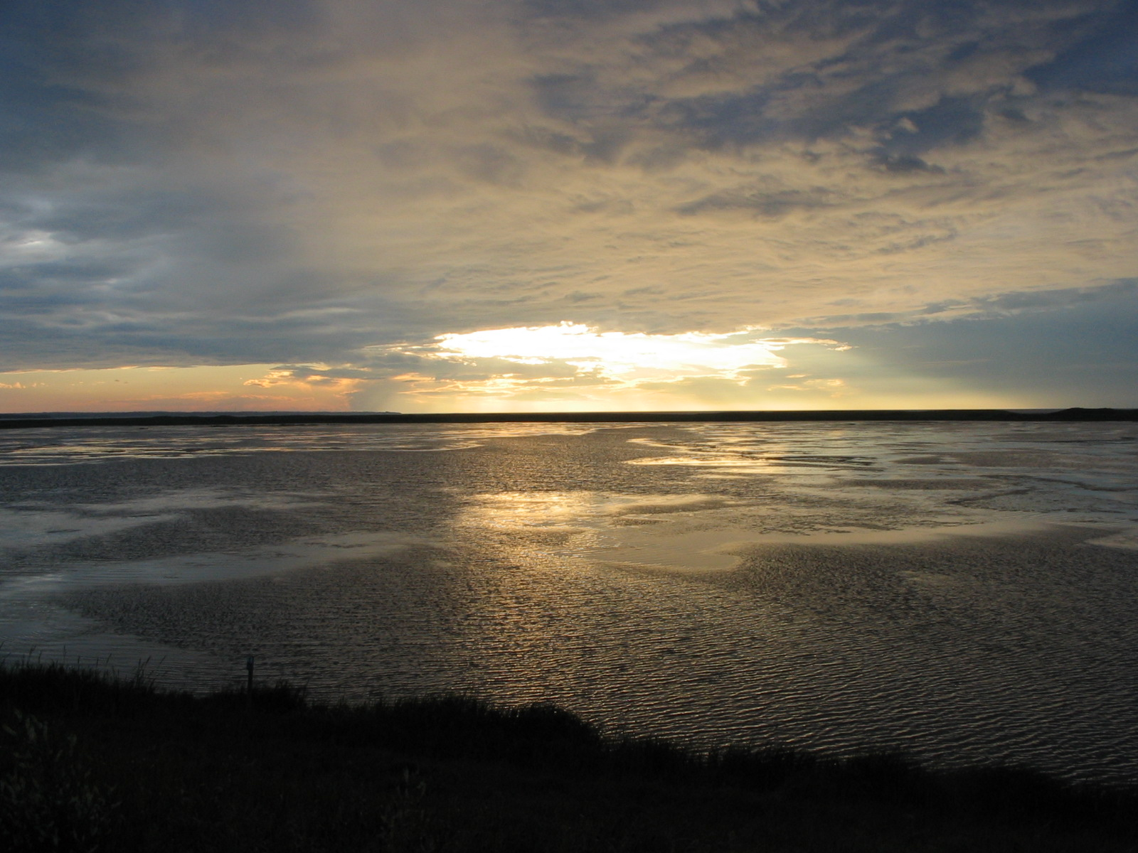 Sunset at Prince Edward Island